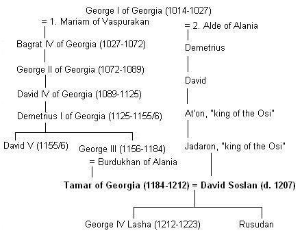 A genealogical chart of David Soslan. It is based on the information from the 18th-century Georgian chronicler Vakhushti summarized in a similar but more complex chart from Sources on the Alans: A Critical Compilation by Agustí Alemany, ISBN 9004114424, p. 321.